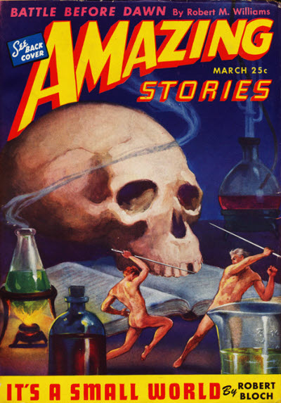 Cover of Amazing Stories, March 1944